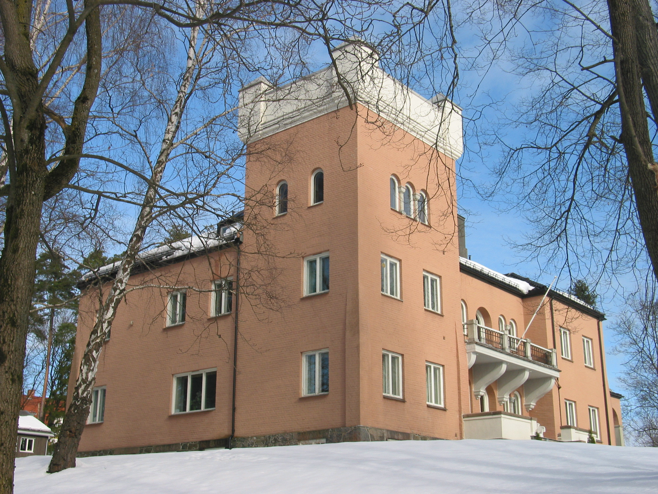 Polhøgda, former home of F.Nansen, seen from the southwest in March 2009.